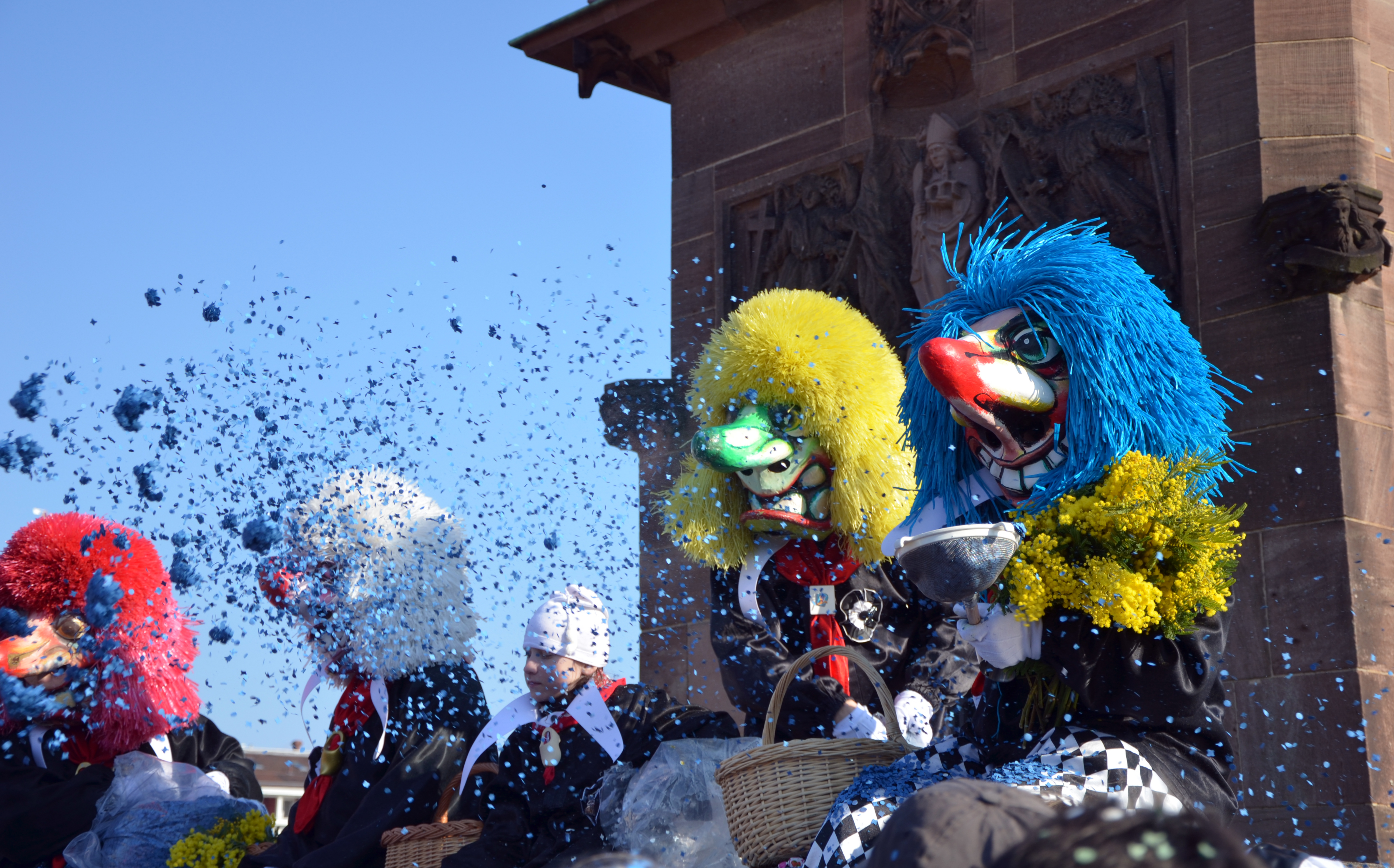 Waggis throwing confetti on the Mittlere Brücke (Mid-Rhine Bridge) at the carnival of Basel (Switzerland) 2013